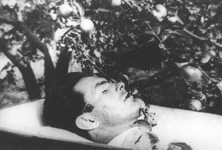 Shot is from film "Shchors" (1939) by Kiev Film Studio (now Dovzhenko Film Studios).